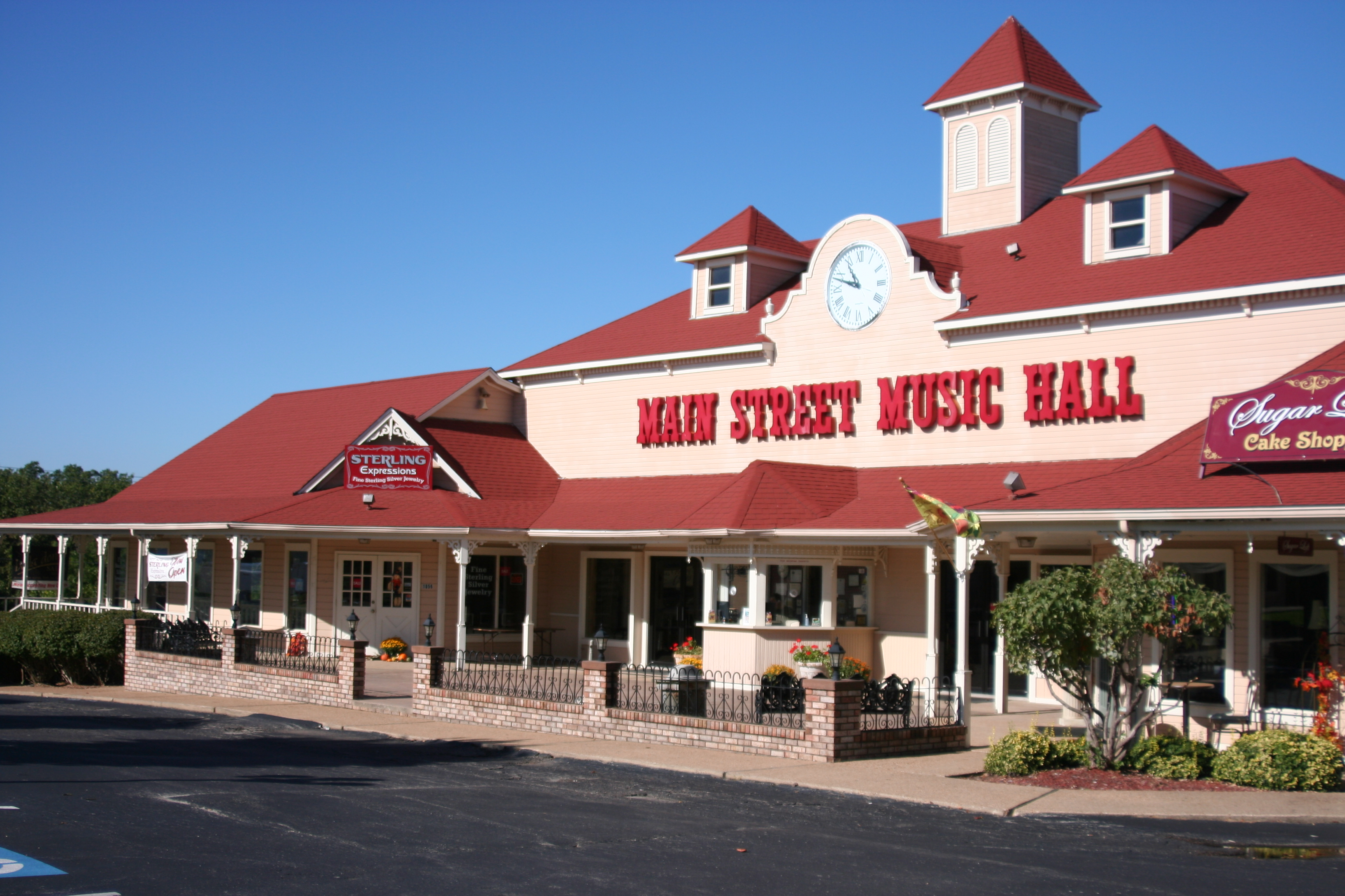 The Main Street Music Hall in Osage Beach, Camden County, Missouri, USA.